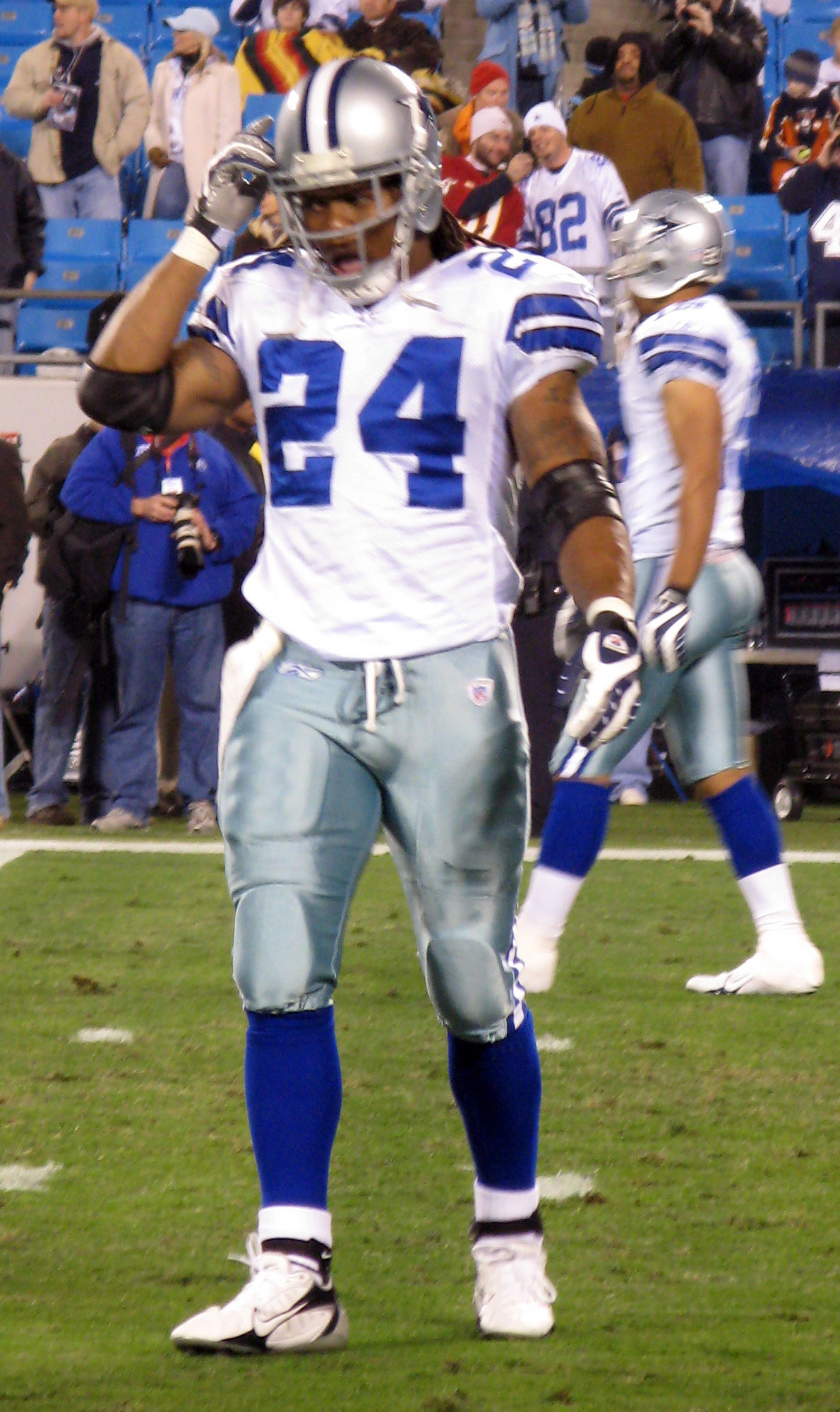 Marion the Barbarian